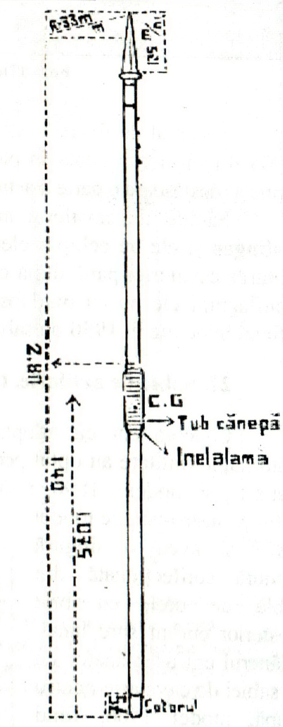 Lance for the the soldiers of Romanian Cavalry Corps, model 1908